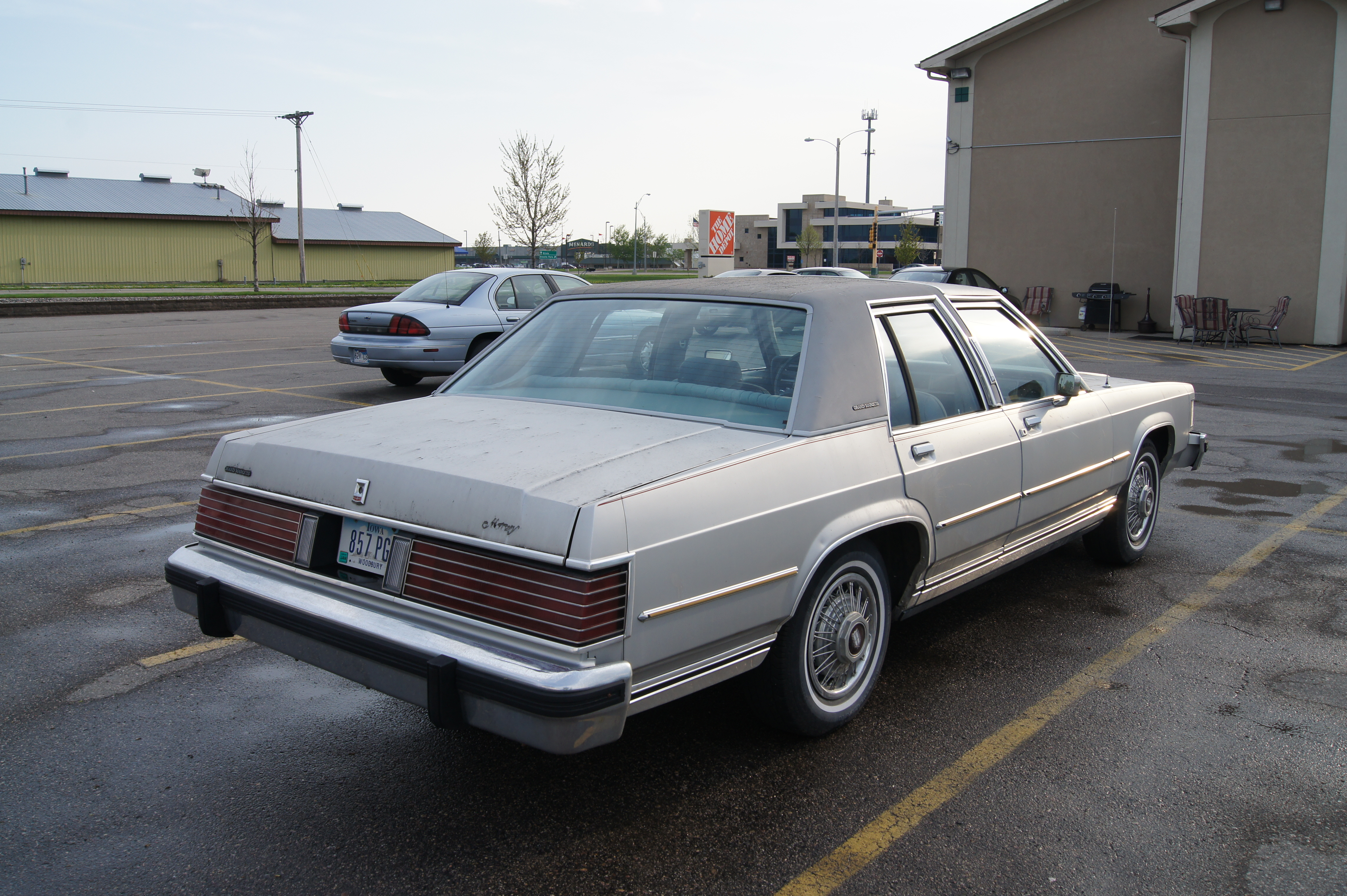 The evening before the Willmar Car Show & Swap Meet, Cars gather at the New London A&W Country Stop for a couple hours before cruising to the Kandi Mall in Willmar. Unfortunately, this was the first year the cruise was rained out. More Car Pictures